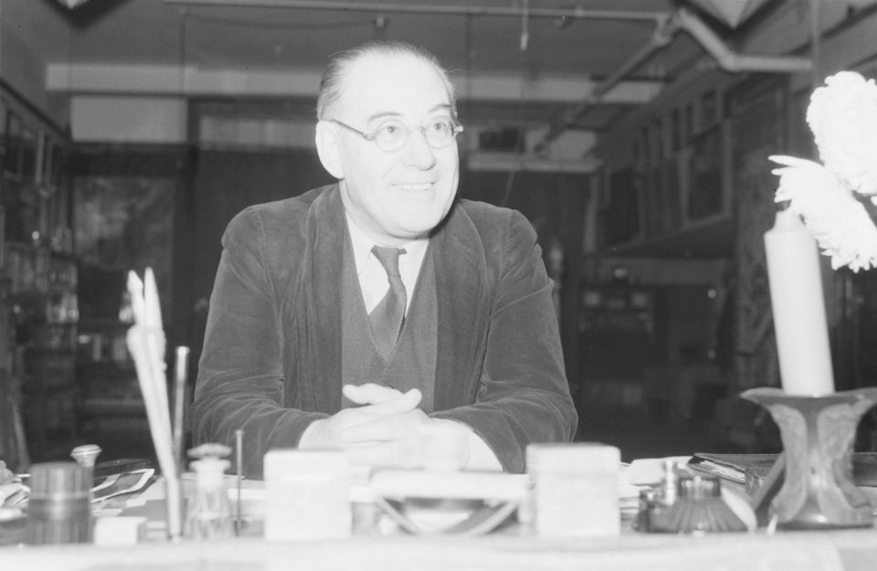 Pianist and composer Alfred Laliberté is sitting at his desk.